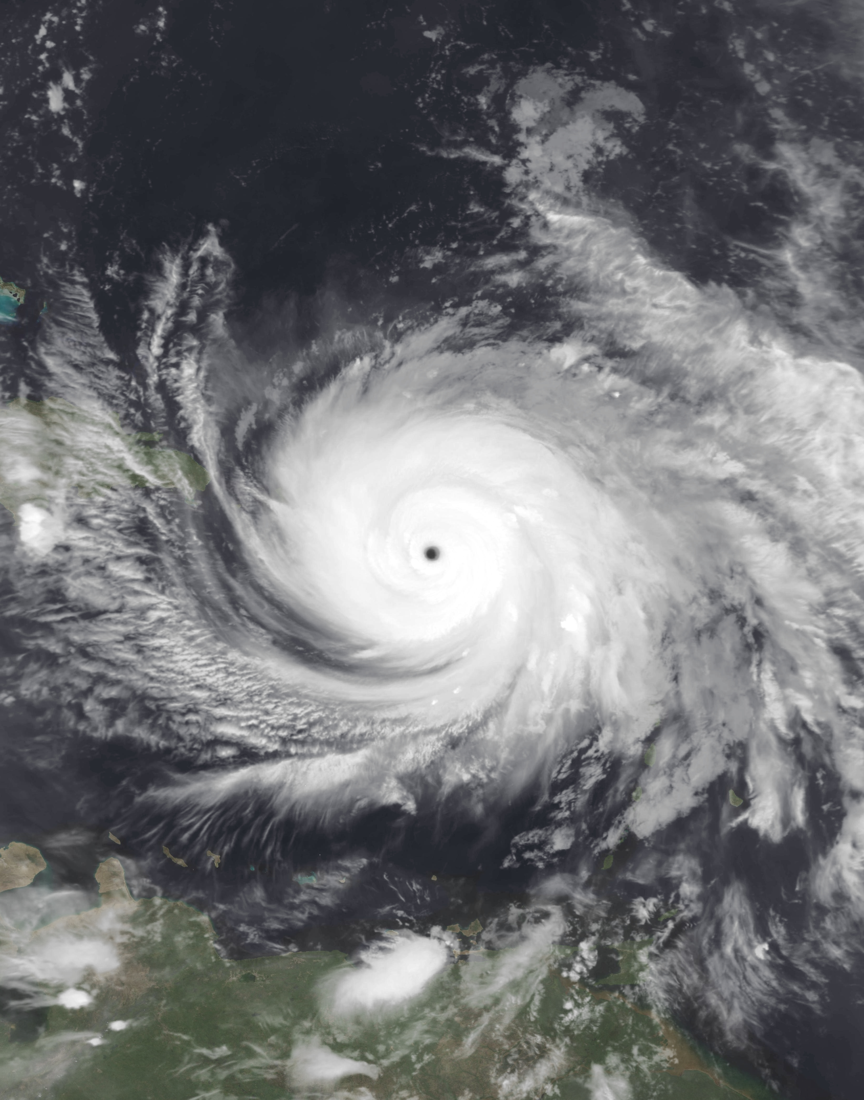 A coastline-less version of File:Maria 2017-09-20 0238Z.jpg